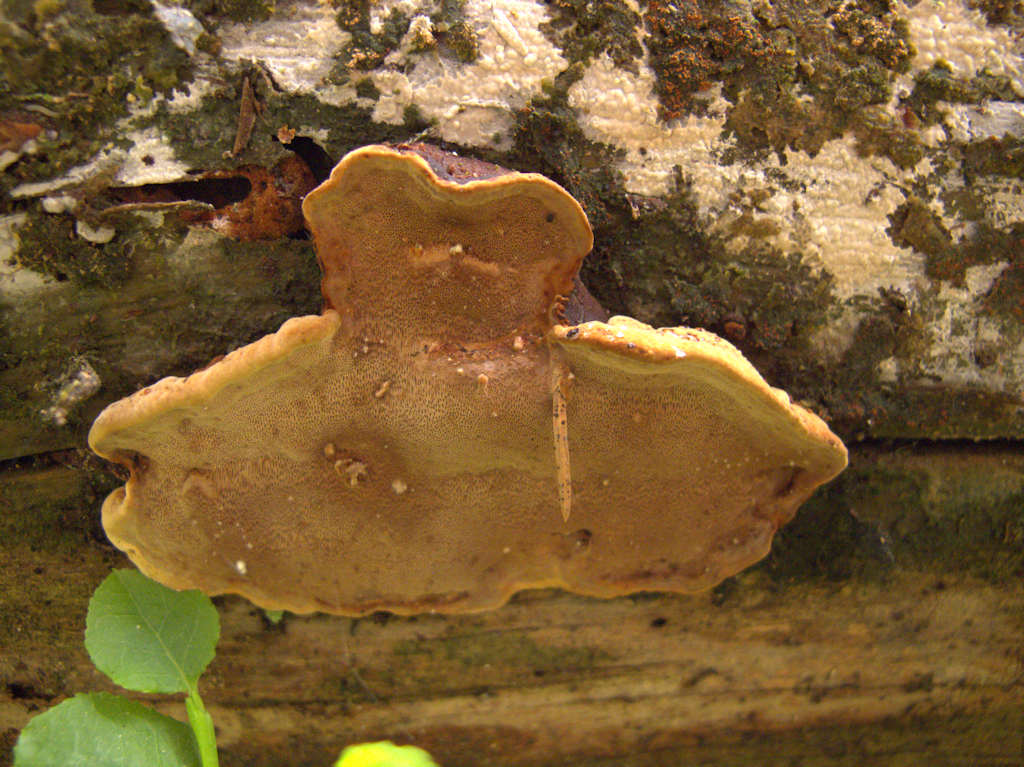 fruiting body in fresh state